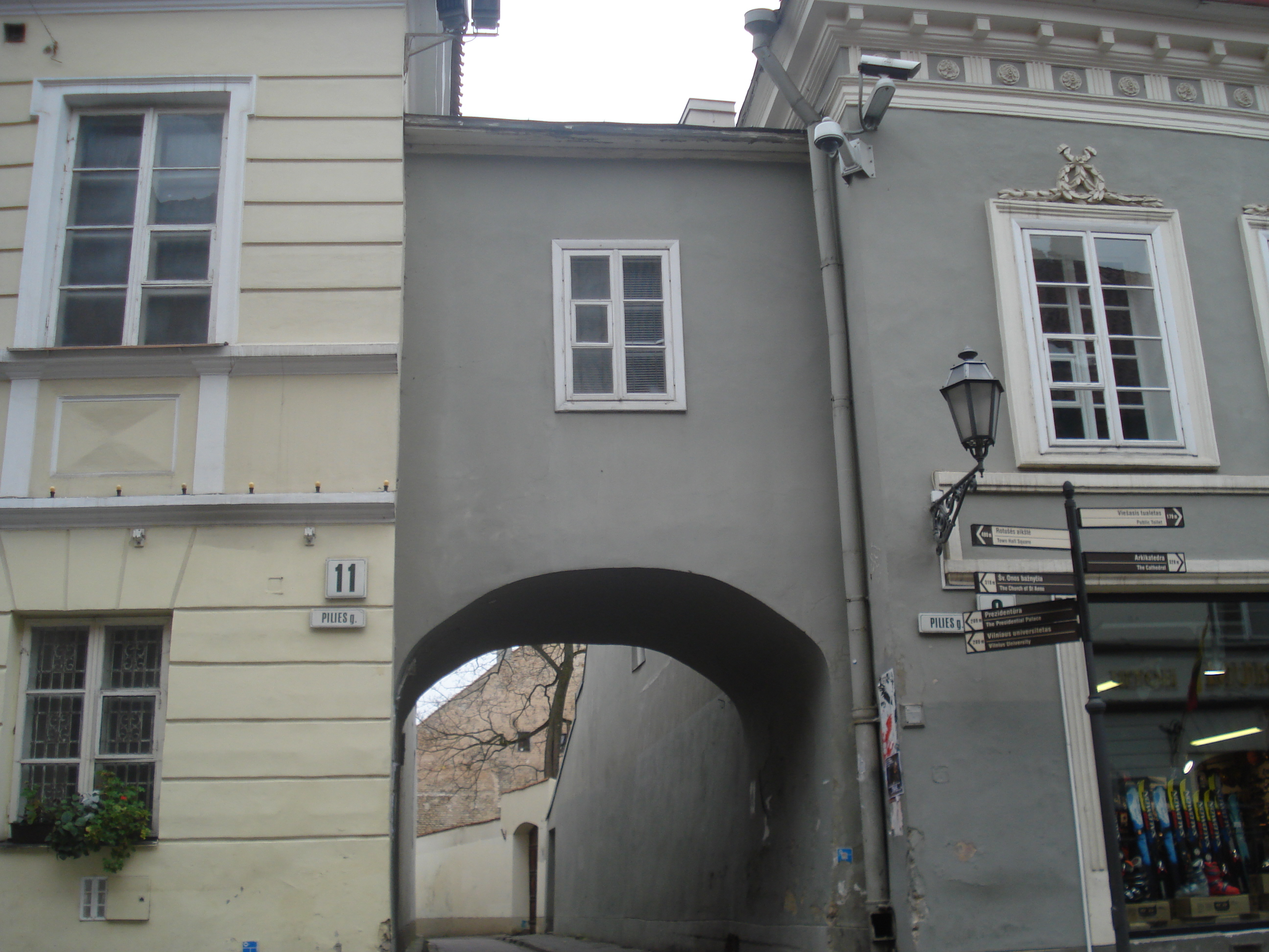 House in Pilies street in Vilnius (Pilies g. 9, Pilies g. 11). Archway to Skapo street